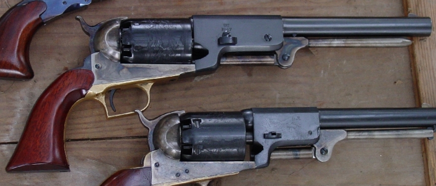 Uberti Percussion revolver including top to bottom, Colt Paterson, Colt Walker, Colt 3rd Variation Revolving Holster Pistol (Dragoon)